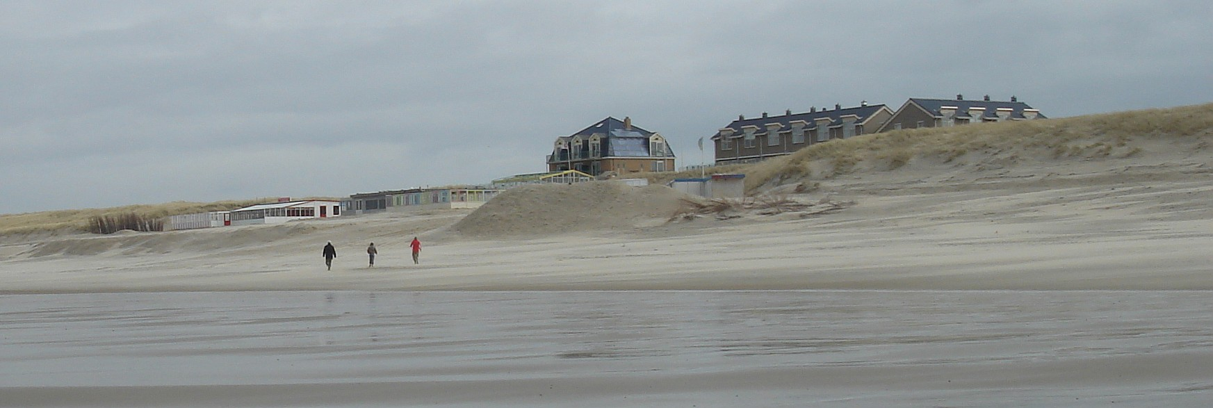 Beach of De Koog on the island of Texel, Netherlands.